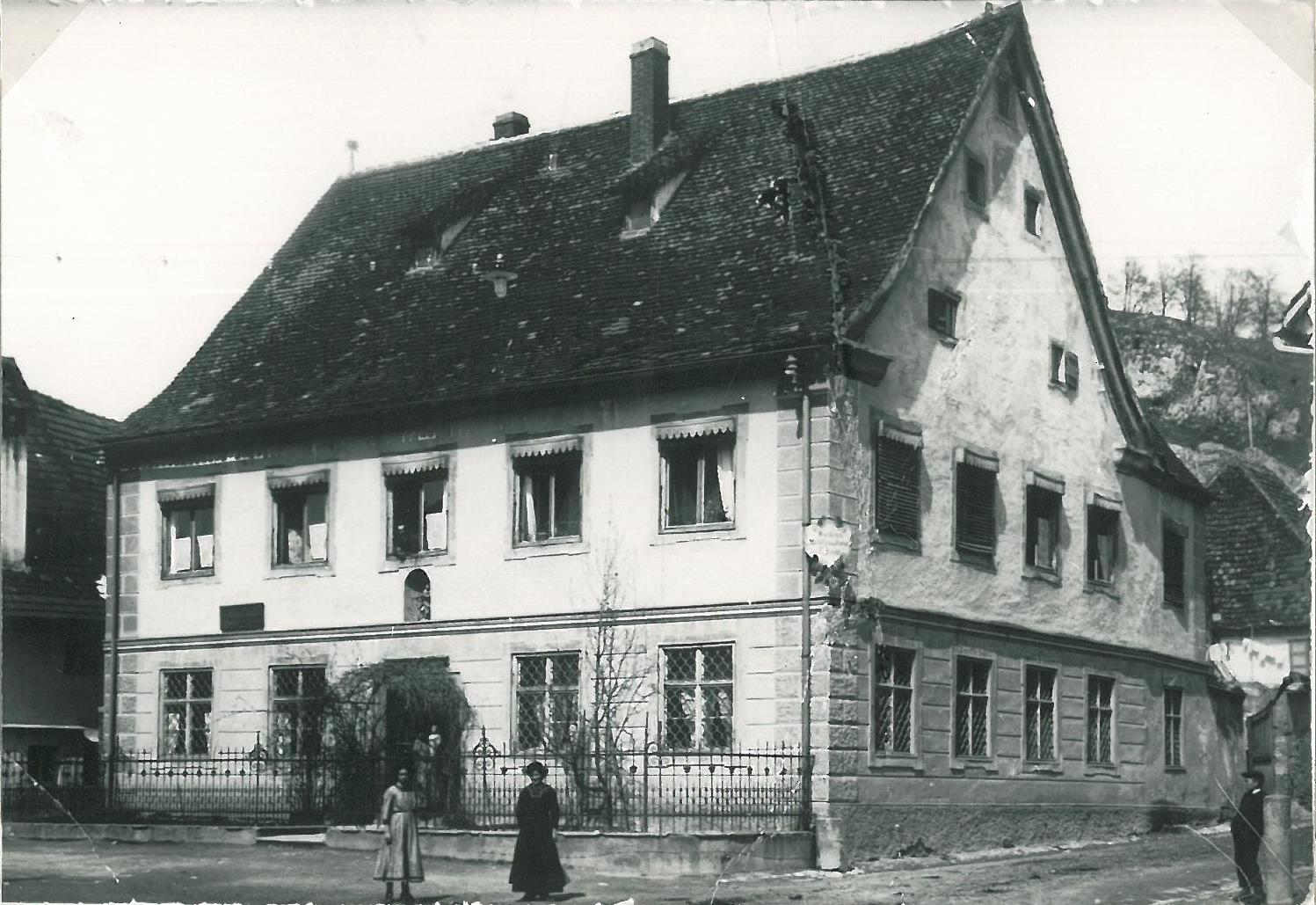 Fotograph of the "New House" in Schelklingen from the south, vor 1914